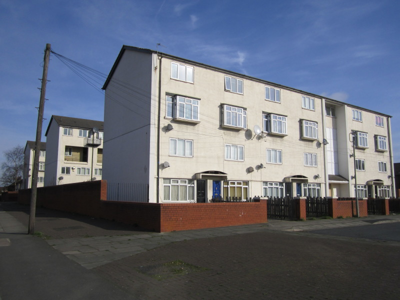 Flats on Croxteth Hall Lane, Croxteth, Liverpool, England.